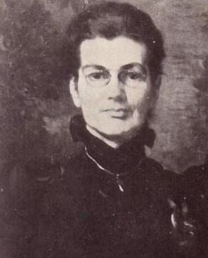 Charlotte Anne Moberly